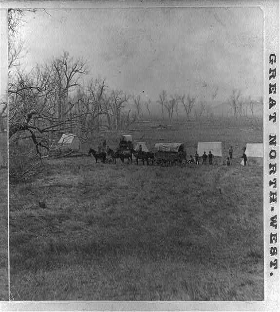 Capt. Sanderson's camp at the ford, while gathering the bones and building the monument. Custer's battlefield in Montana.; not long after the 1876 Battle of the Little Bighorn.